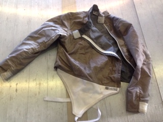 Fencing lame